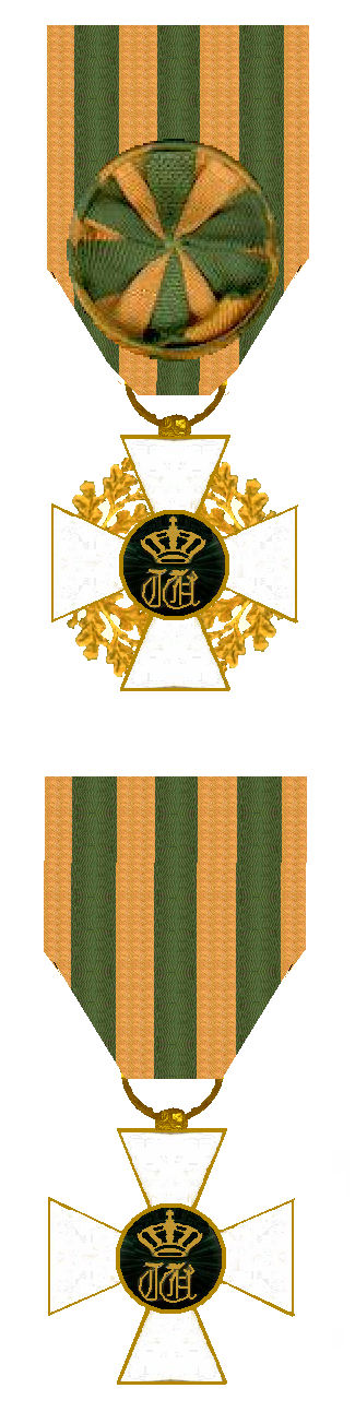 Order of Luxembourg Ordre de la couronne de Chêne